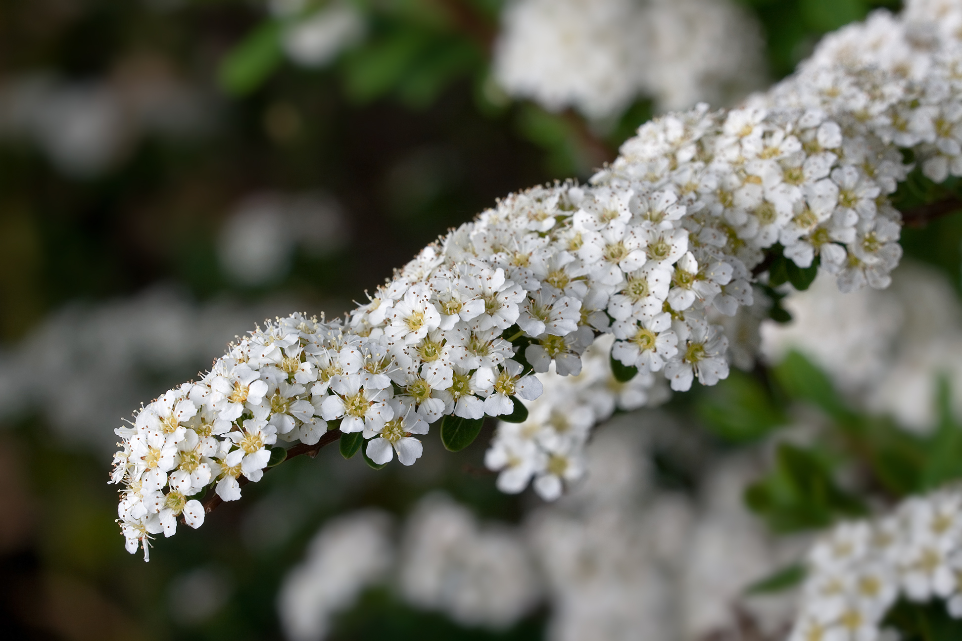 Spiraea × arguta (S. × multiflora × S. thunbergii)